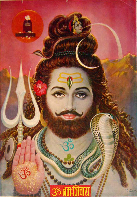 Bearded Shiva